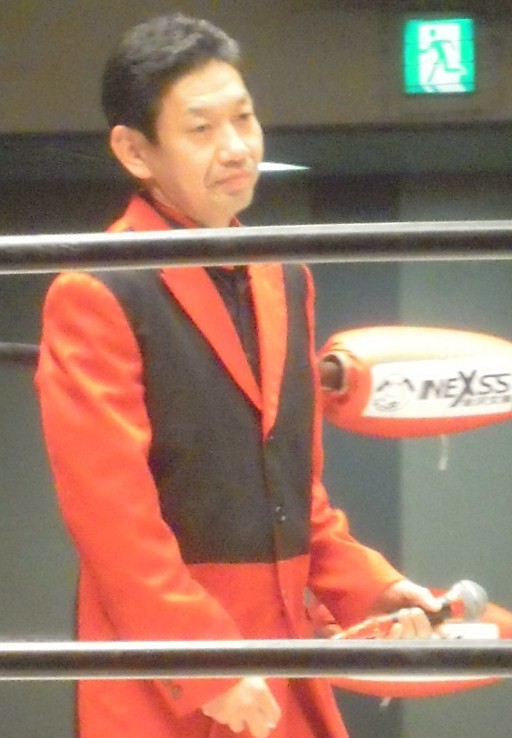 Japanese ring announcer, Nagaharu Imai. 26 Feb 2012, BJW Korakuen Hall.